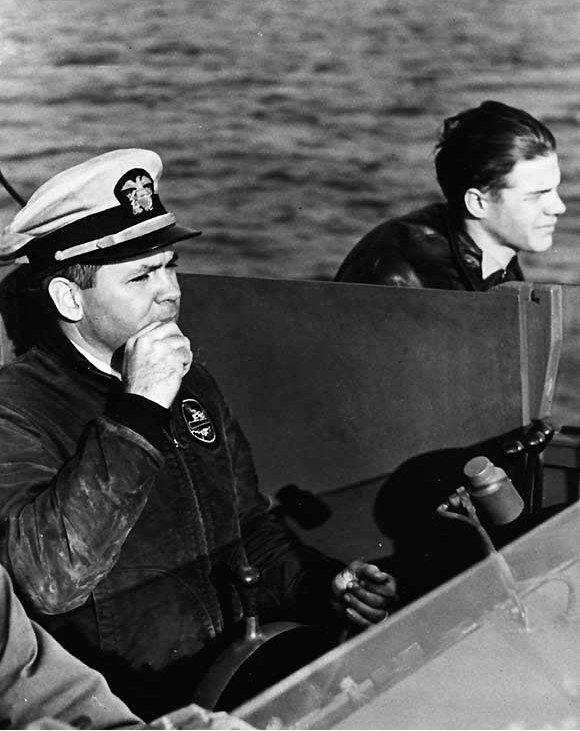 Photo #: 80-G-14252 Lieutenant John D. Bulkeley, USN Photographed while on board a Motor Torpedo Boat (PT), circa 1942. Official U.S. Navy Photograph, now in the collections of the National Archives.